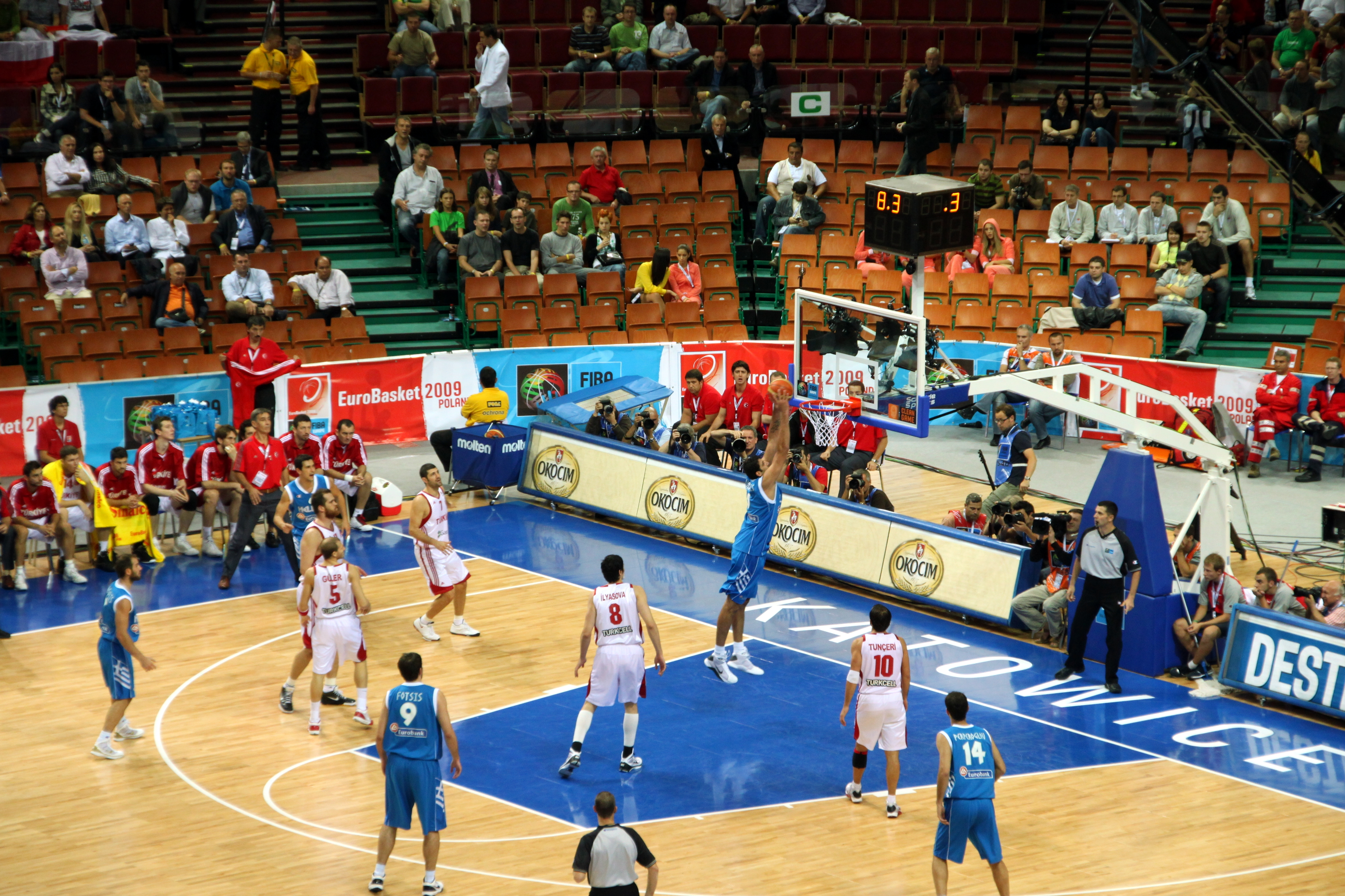 Ioannis Bourousis is striking... Greece edged Turkey in a EuroBasket Quarter-Final thriller. [Turkey 74-76 Greece, Eyrobasket 2009, Poland] Turkey 76-74 Greece